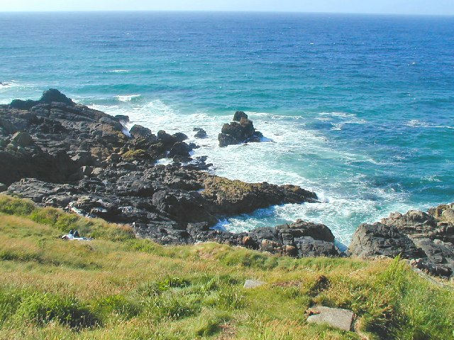 "The Island", St Ives. On these rocks the S.S. Alba perished on 31 Jan 1938.